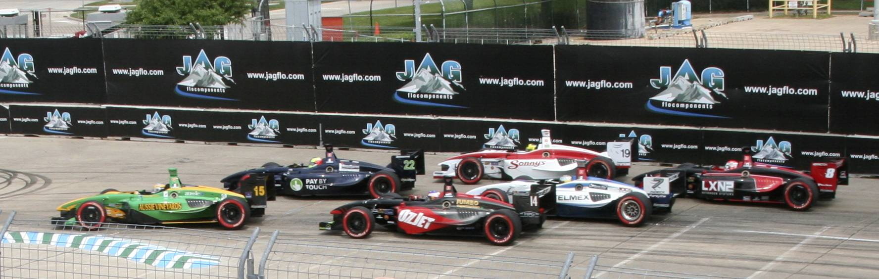 Champ Car machines racing in the 2007 Grand Prix of Houston